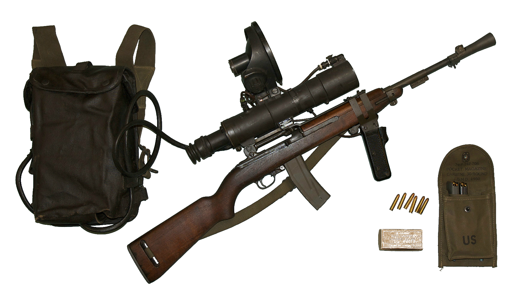 M3 Carbine with infrared sniper scope